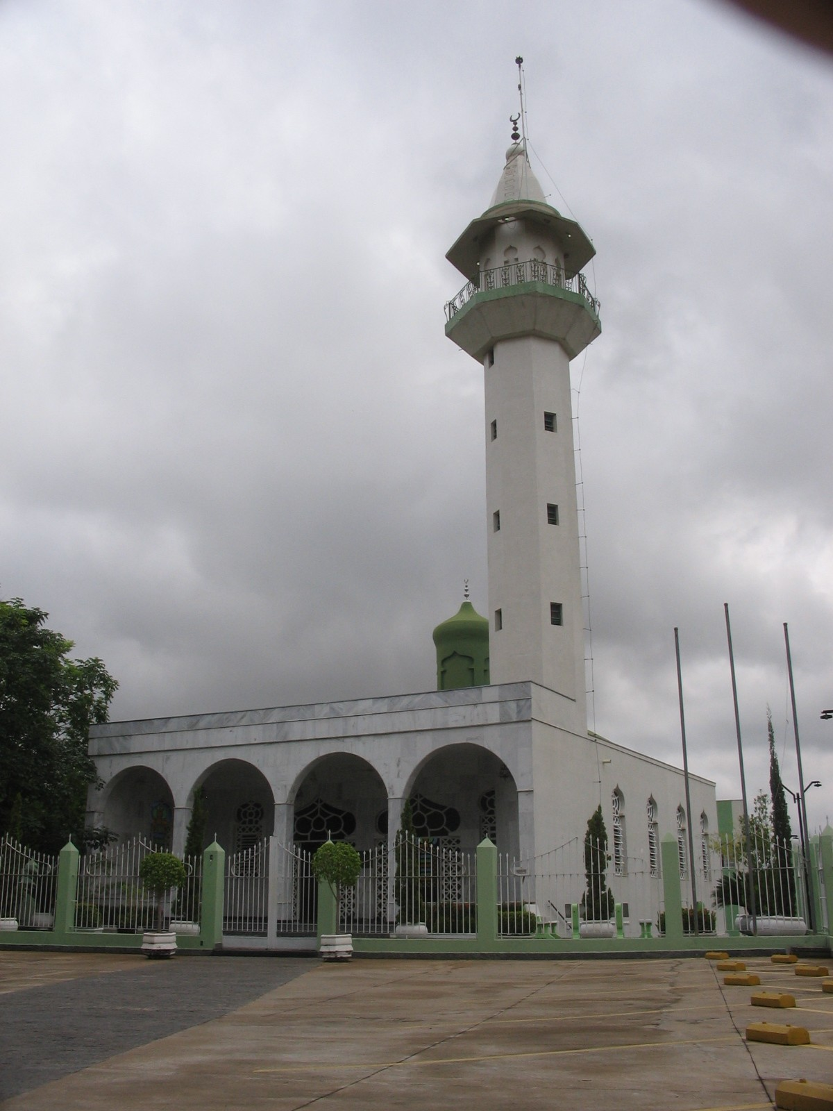 Mosque of Cuiabá, Mato Grosso, Brazil.